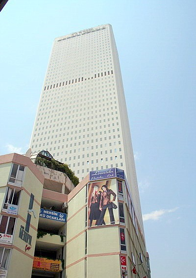 A skyscraper in Mersin